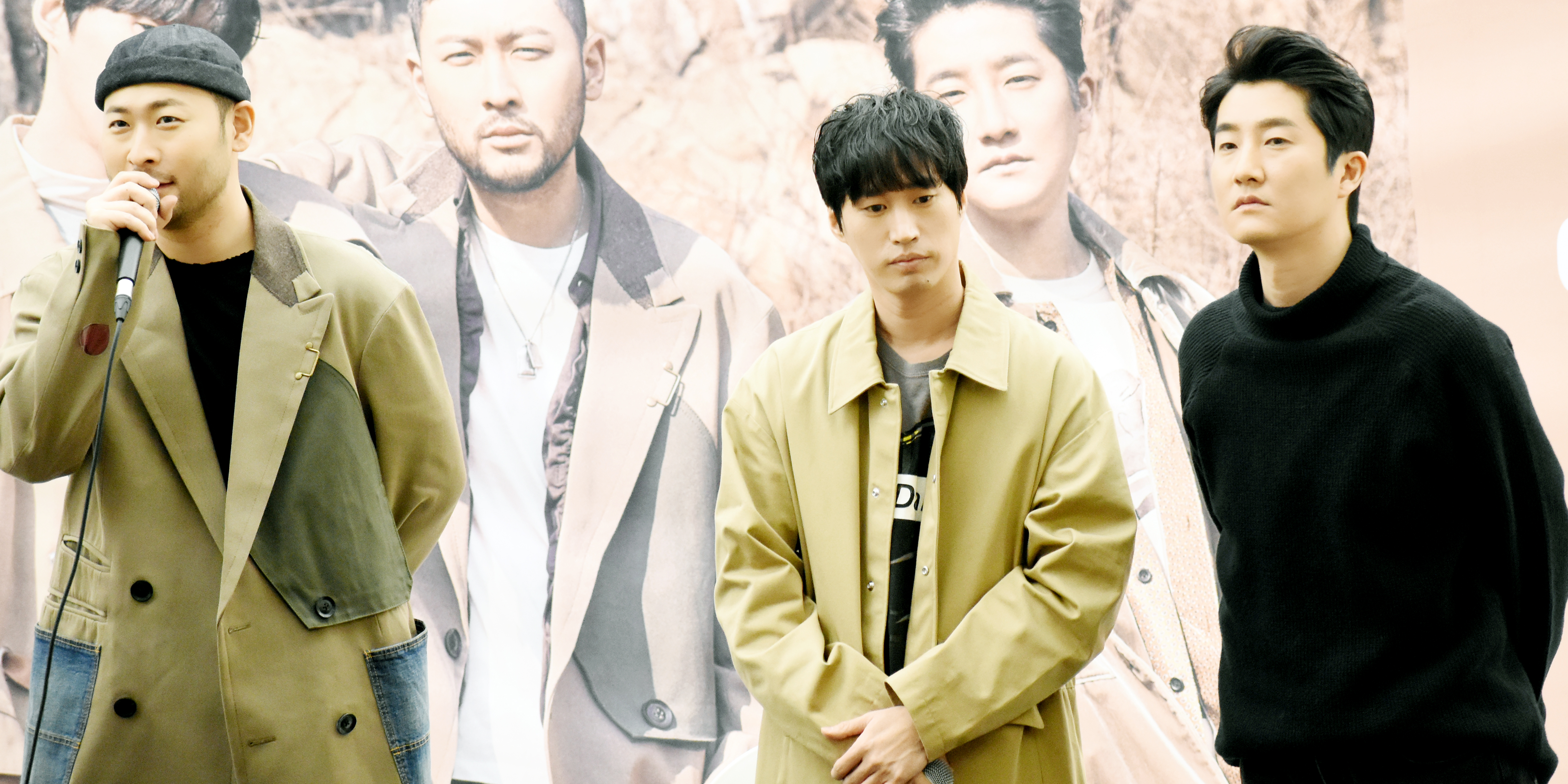 Epik High at a fansign event at COEX's Live Plaza in Seoul on March 22, 2019.